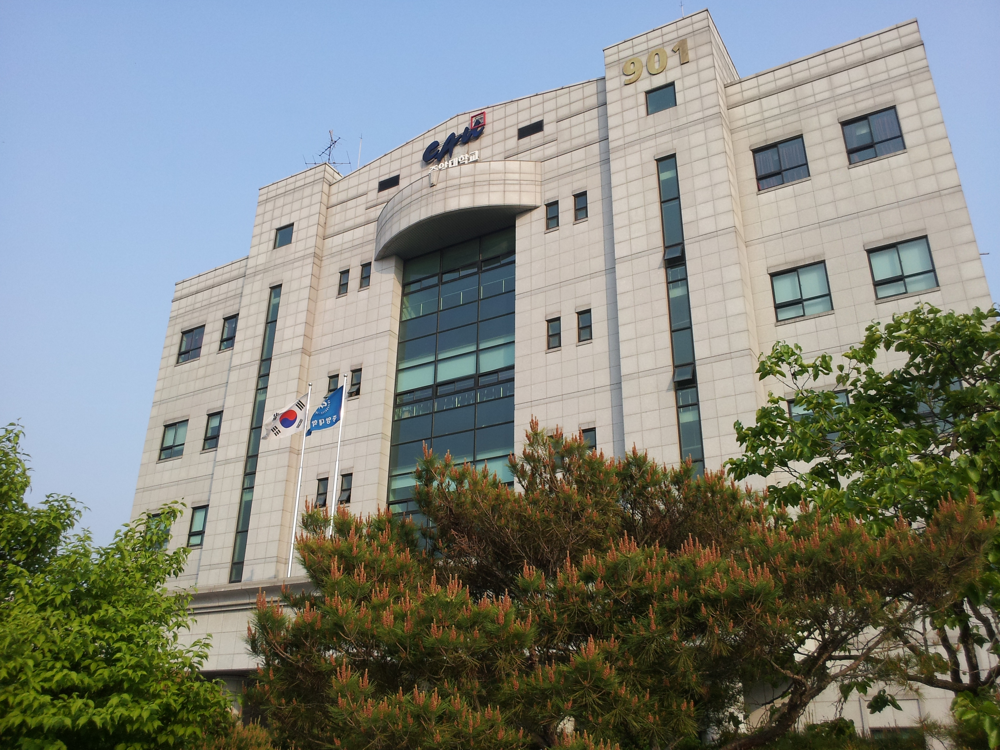 Chung-ang Univ.Ansung main building